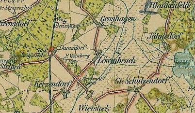 Historical Pharus-Map from 1903 (part). Village Löwenbruch, part of the town Ludwigsfelde in the district Teltow-Fläming, state Brandenburg.